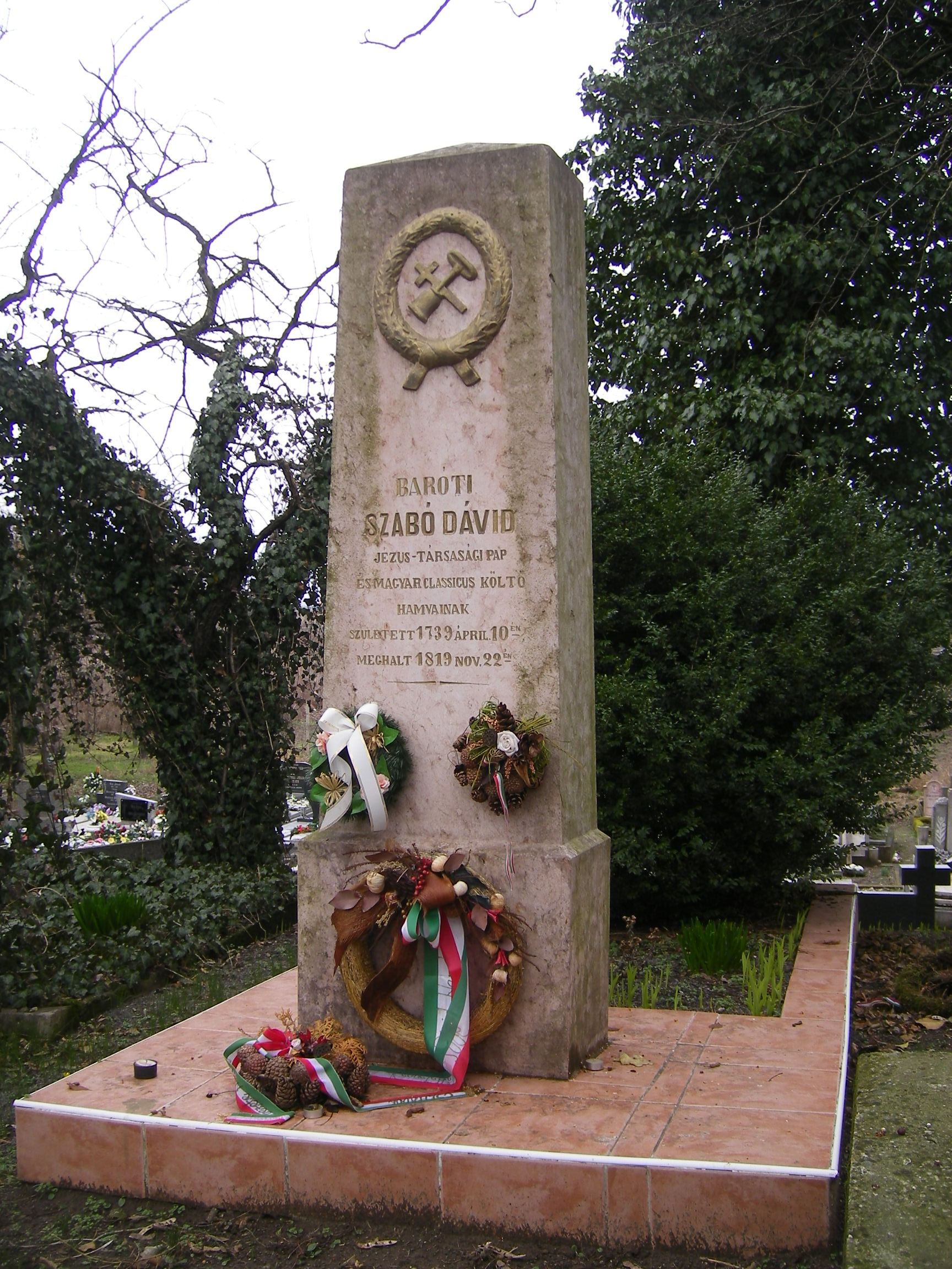 Virt, grave of the famous Hungarian poet Baróti Szabó Dávid.